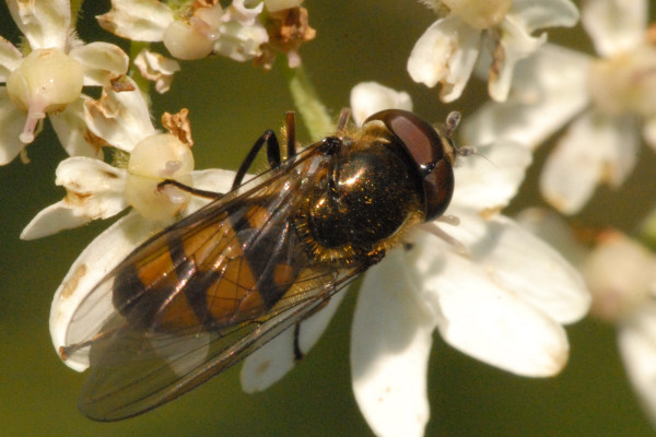 Xanthandrus comtus from Commanster, Belgian High Ardennes .